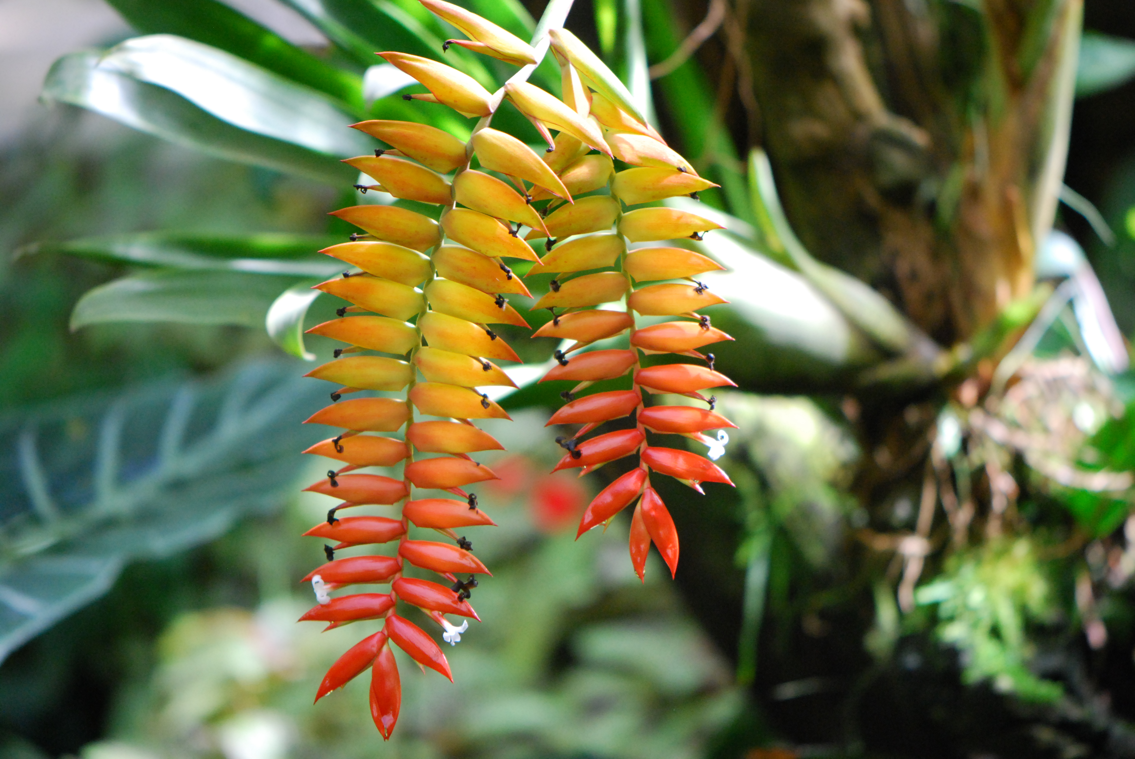 This photo is also on